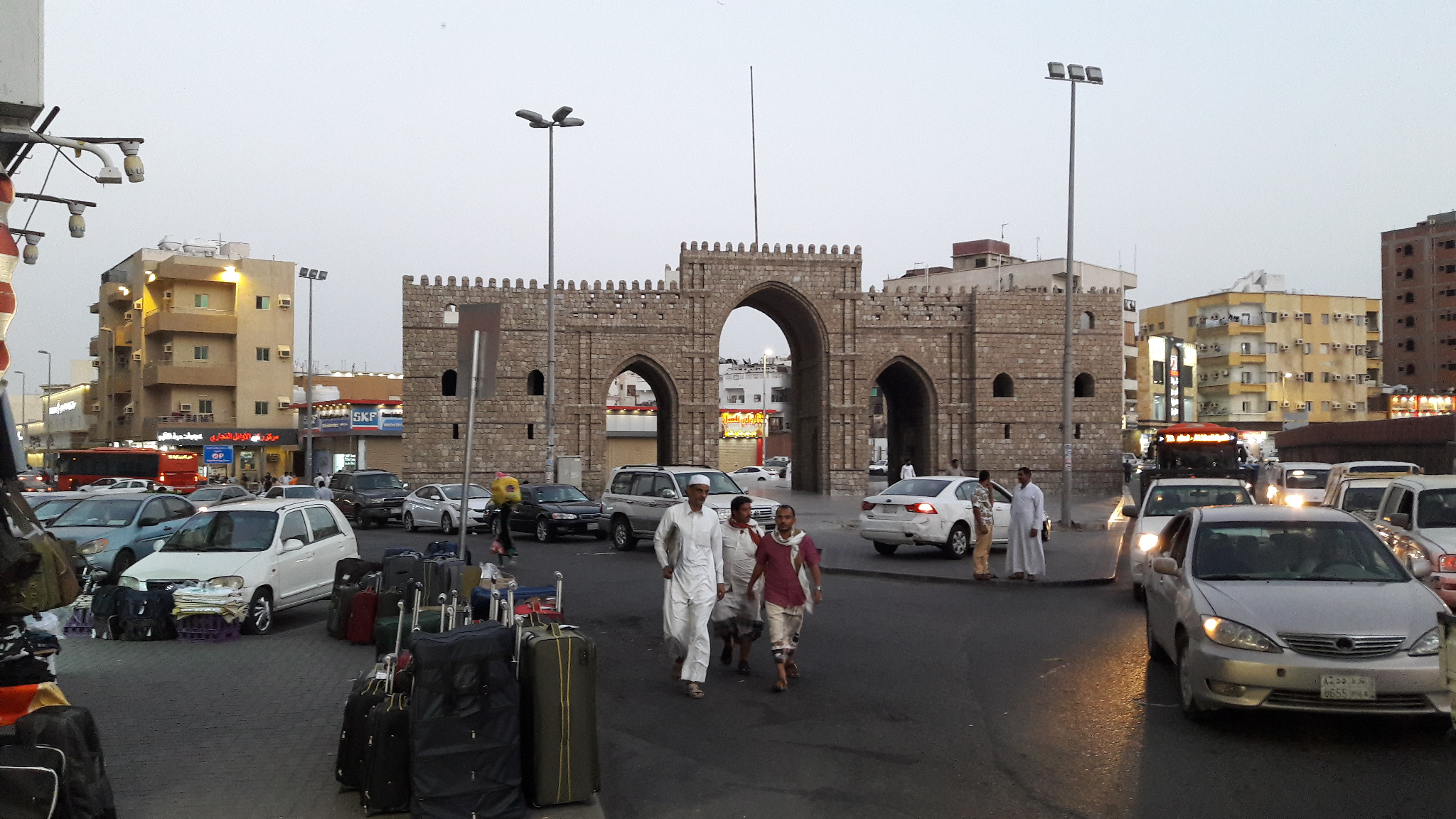 Bab Makkah, Old Jeddah